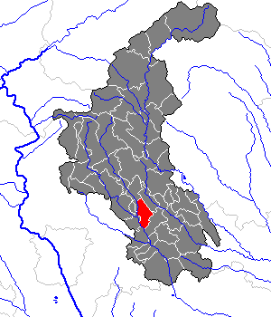 This map shows the area of the Gemeinde (municipality) Unterfladnitz in the Bezirk (district) Weiz, Styria, Austria.